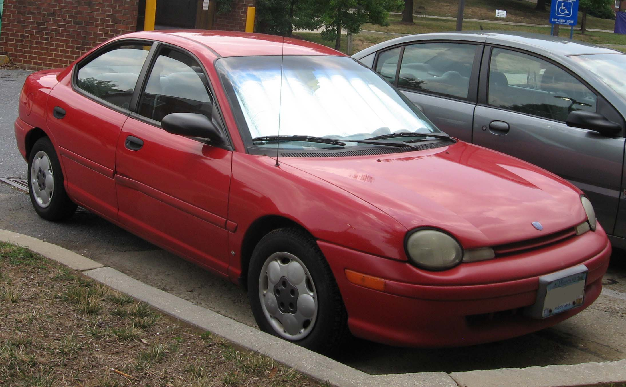 1995-1999 Dodge Neon photographed in USA.